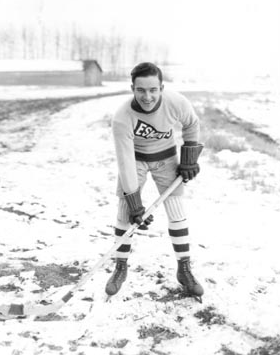 Ice hockey player Art Gagné of the Edmonton Eskimos in the 1921–22 WCHL season.